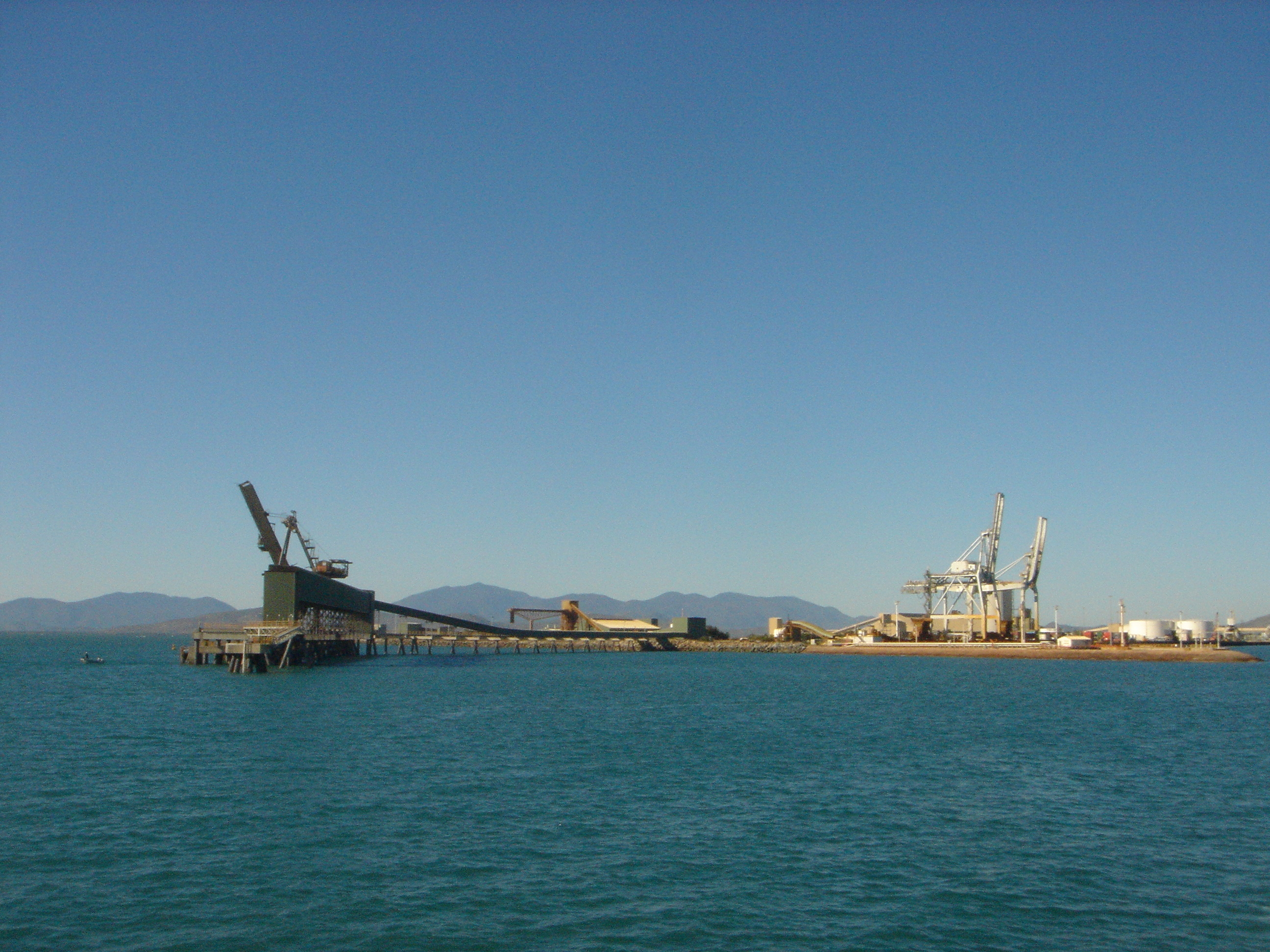 Port of Townsville, Townsville, Queensland.